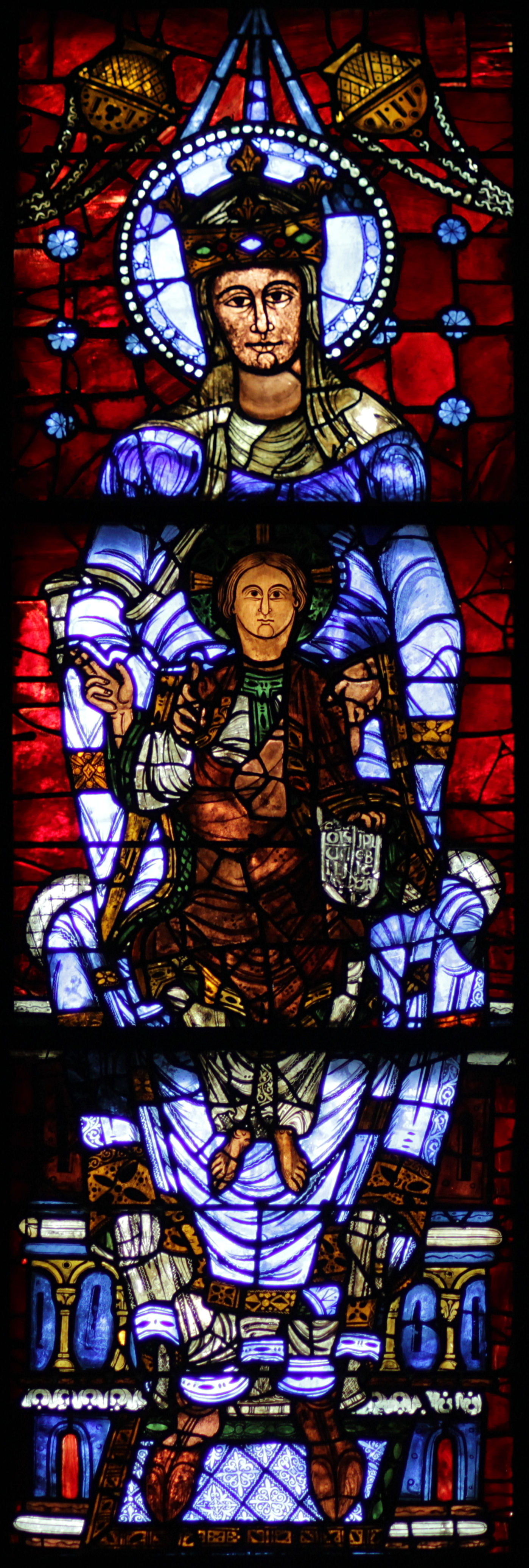 Chartres Cathedral - Notre Dame de la Belle Verrière - the three panels from end of xii century.